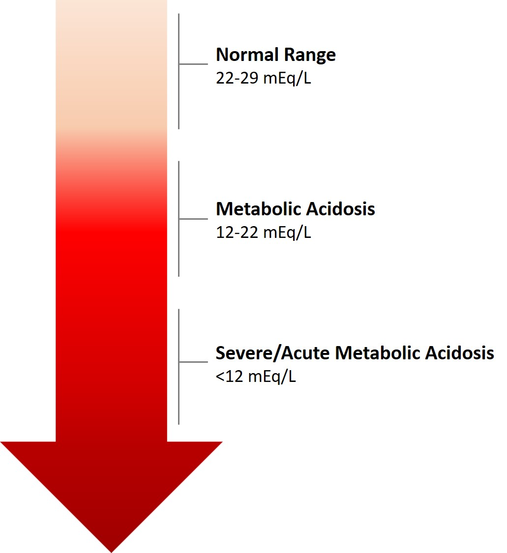 The level of bicarbonate in the blood determines the severity of metabolic acidosis.